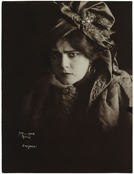 Eliabeth "Lily" Brayton was a UK actress here pictured by May and Mina Moore - they used dramatic lighting to get this effect